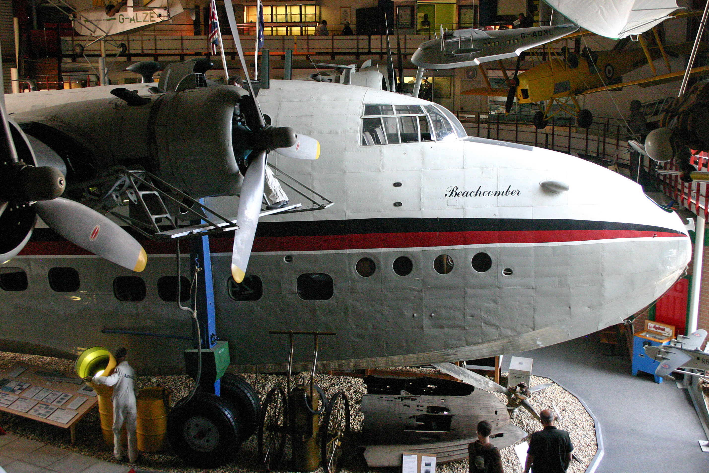 In genuine Ansett Flying Boat Services c/s as VH-BRC and named 'Beachcomer', she was actually last registered as N158C. Originally built as Sunderland JM715, it received a full conversion to Sandringham standard. msn SB.2018. Displayed as the centrepiece of the collection. Solent Sky, Southampton. 14-6-2011